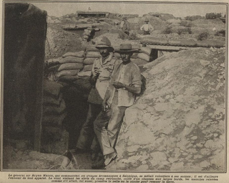 Bryan Mahon (on the left) at Salonica, May 1916